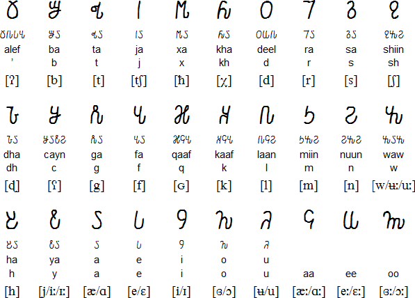 सोमालि वर्णमाला